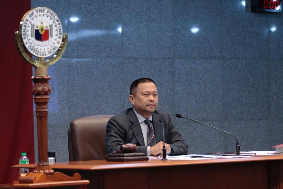 Senator JV Ejercito presides a session of the Senate of the Philippines. At his right is the mace of the Senate.